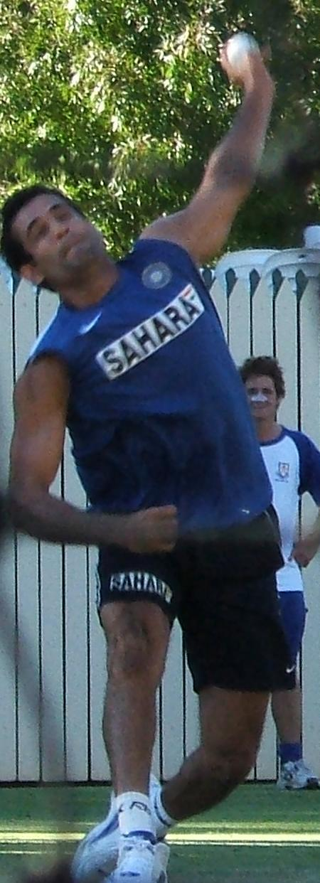 Irfan Pathan at Adelaide Oval